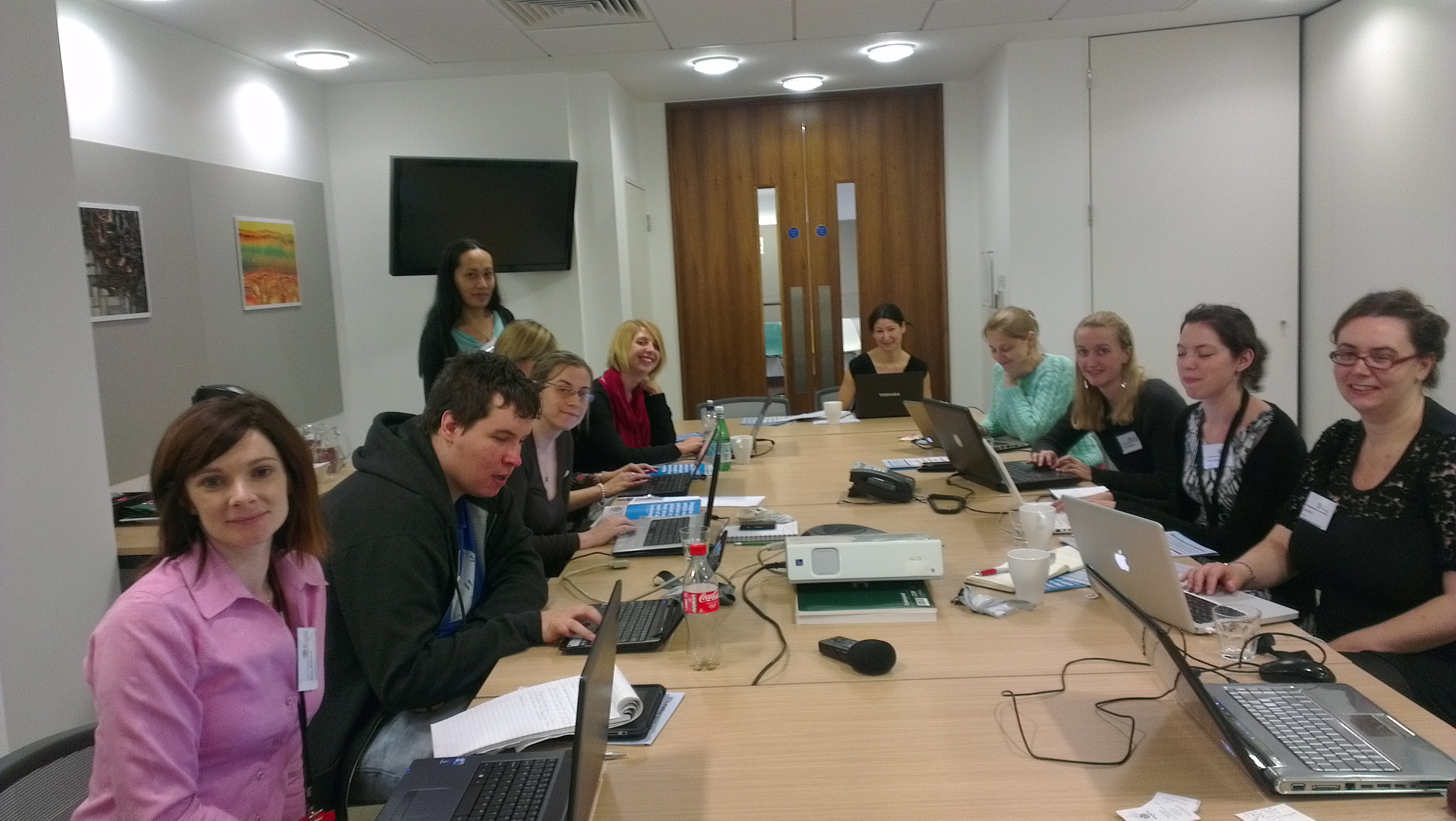 The Biology Online Media Group attend an interesting Wikipedia workshop at Charles Darwin House in London